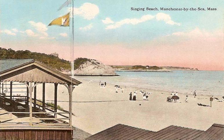 Singing Beach, Manchester-by-the-Sea, MA; from a 1914 postcard.